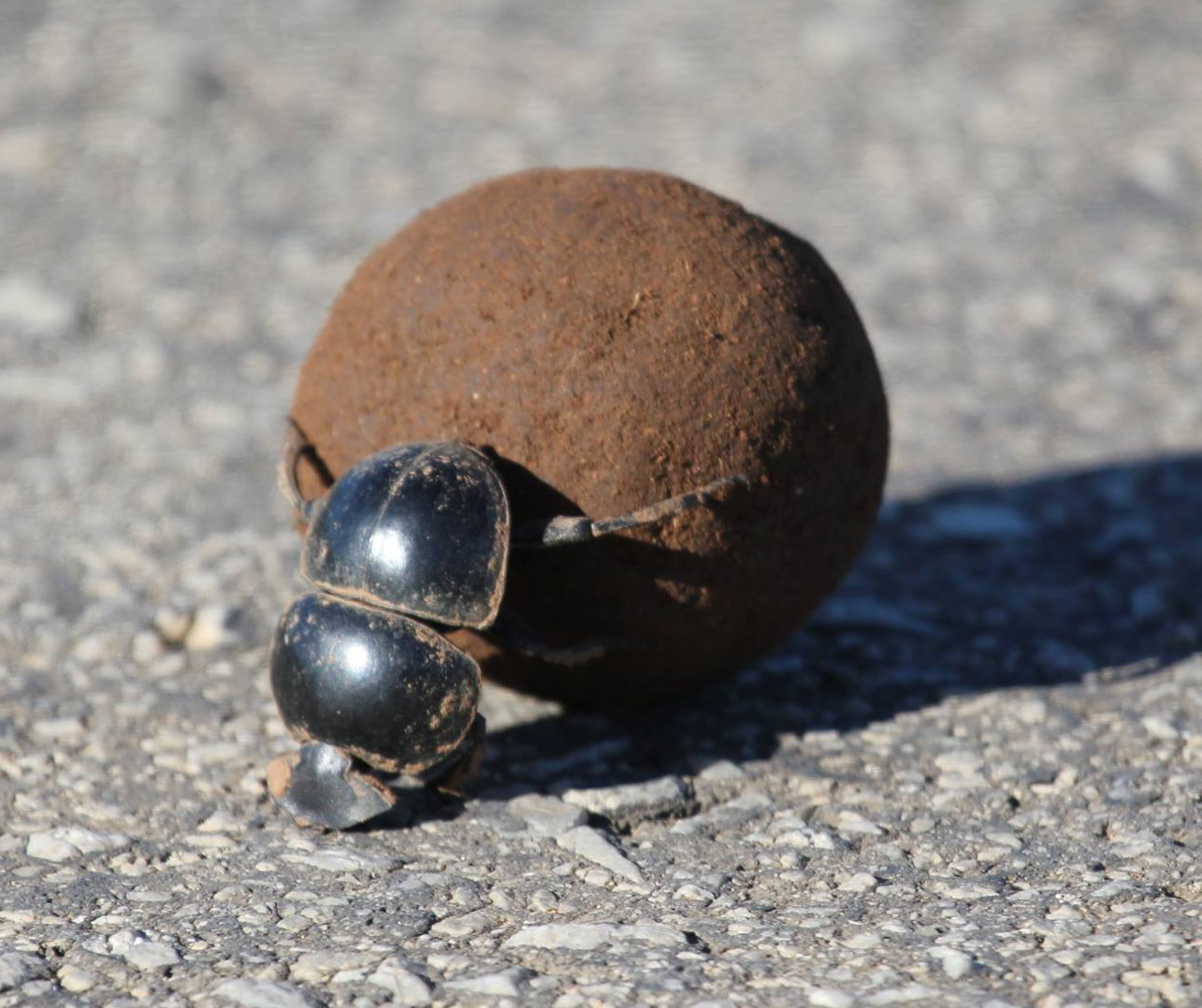 Circellium bacchus (Fabricius, 1781) - Flightless dung beetle